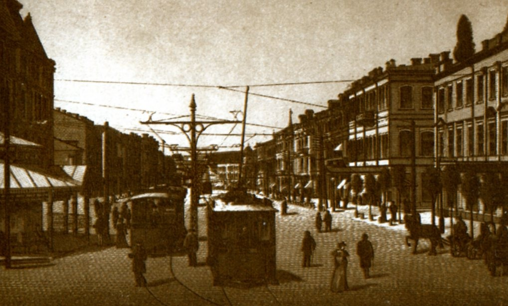 Ukranine-Kyiv-Chrestjatyk from Oleksandrivska ploscha.